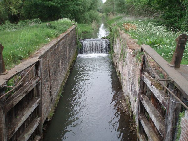 North Walsham to Dilham Canal The disused canal from Briggate Bridge.